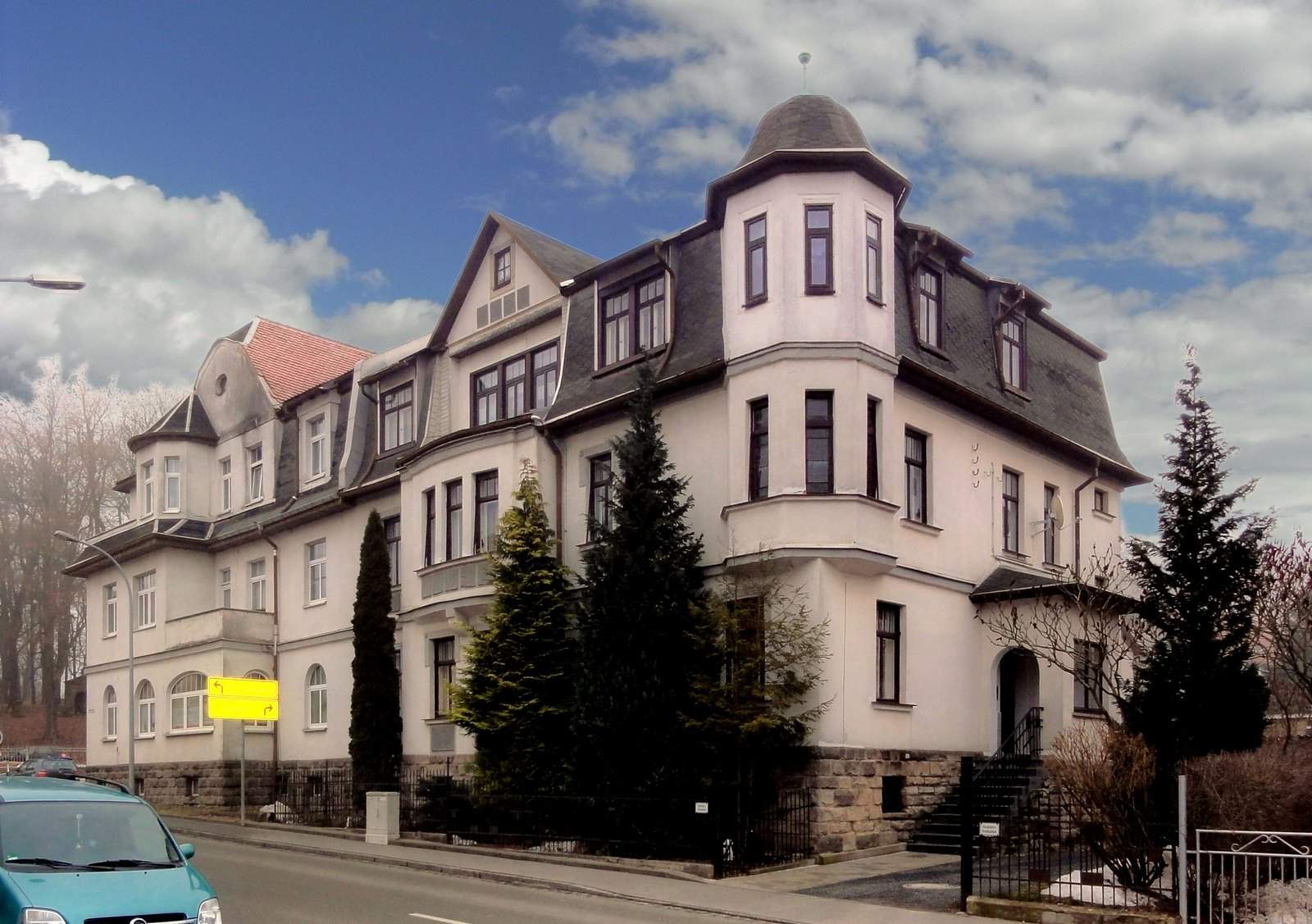 Former house of Dr. h.c. Ernst Dahinten in Eisfeld